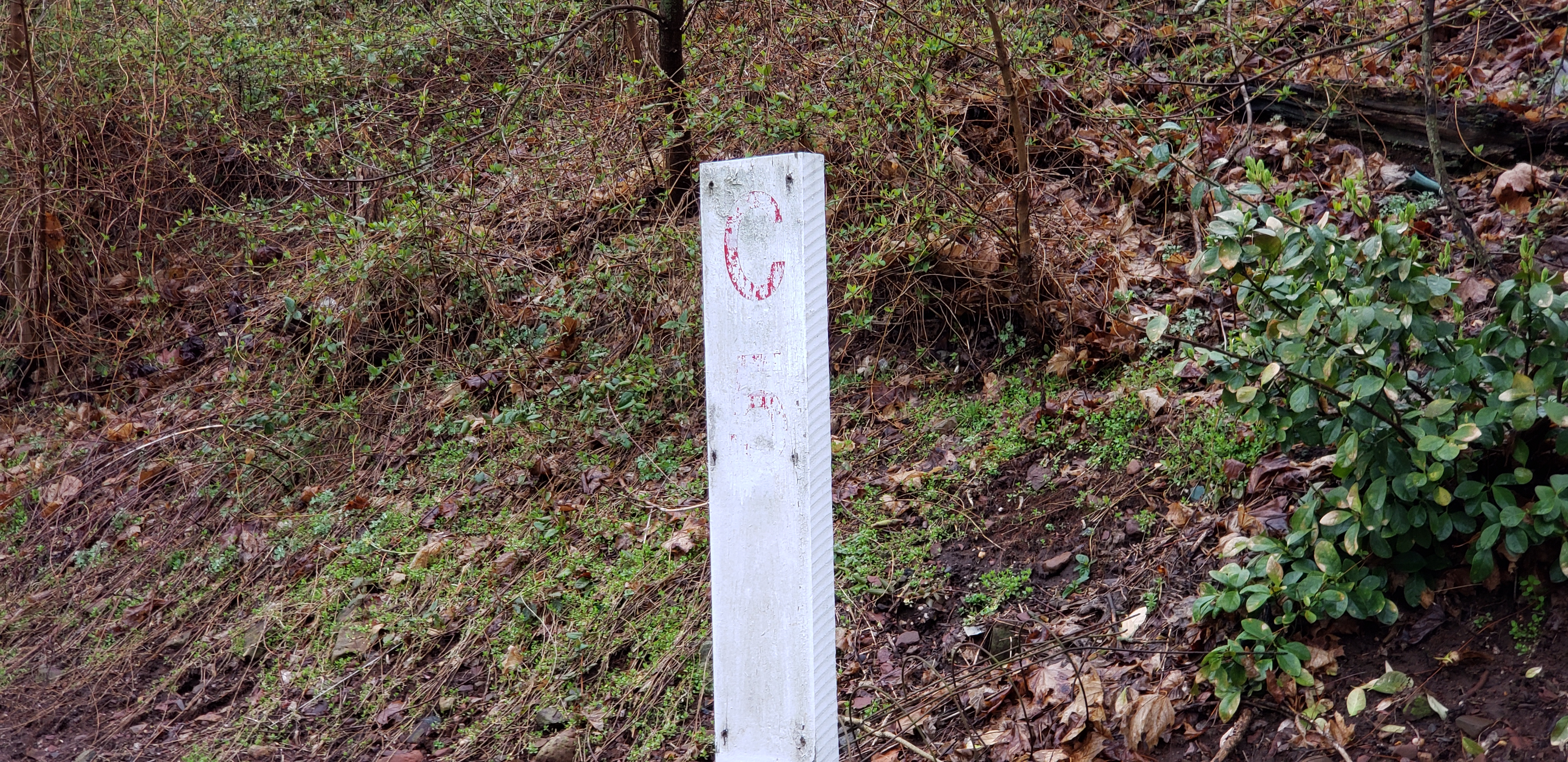 Disused Conductor indicator for a 5-car train at Grant City station on the Staten Island Railway, NYC. Used during 5-car train tests in the early 2010s. As of 2019, almost all of these have been removed, as SIRTOA continues to use 4-car trains.